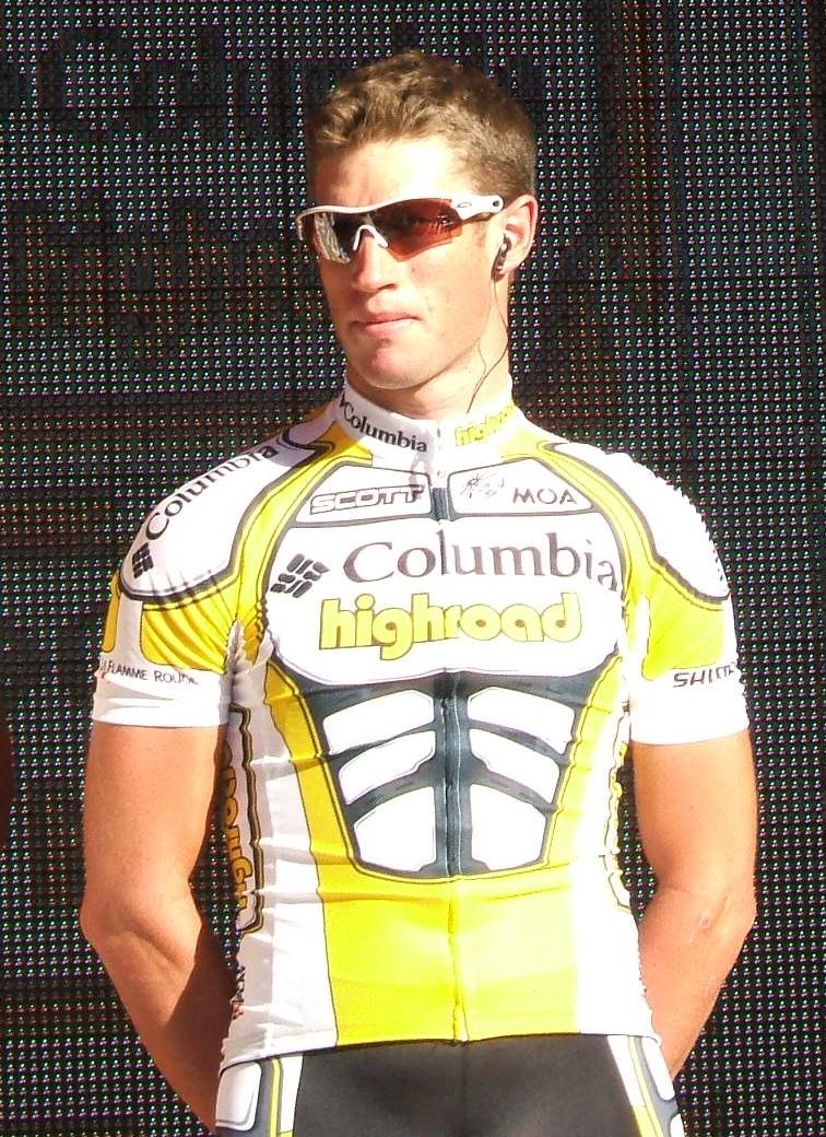 Named cyclist at the en:2009 Tour Down Under team presentation